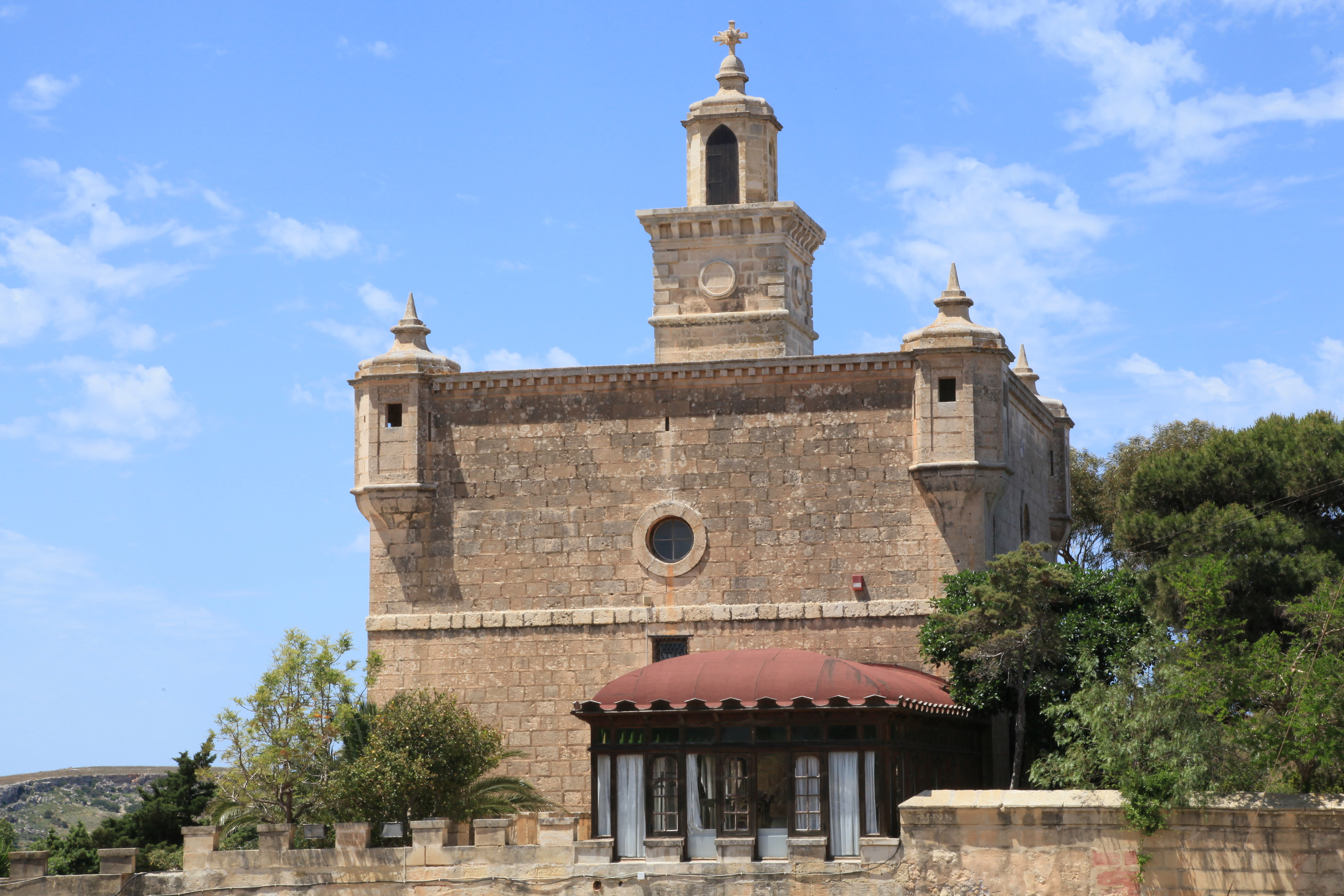 Castello Zamittello, Triq il-Kbira in Mġarr, Malta